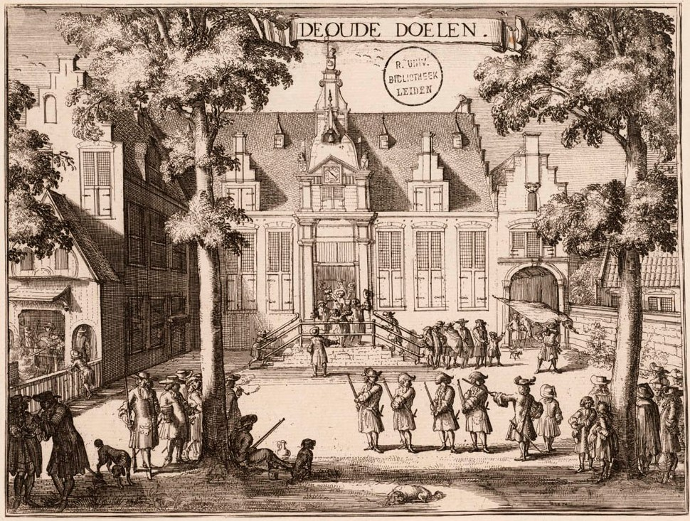 Doelen, Gasthuisstraat, Haarlem